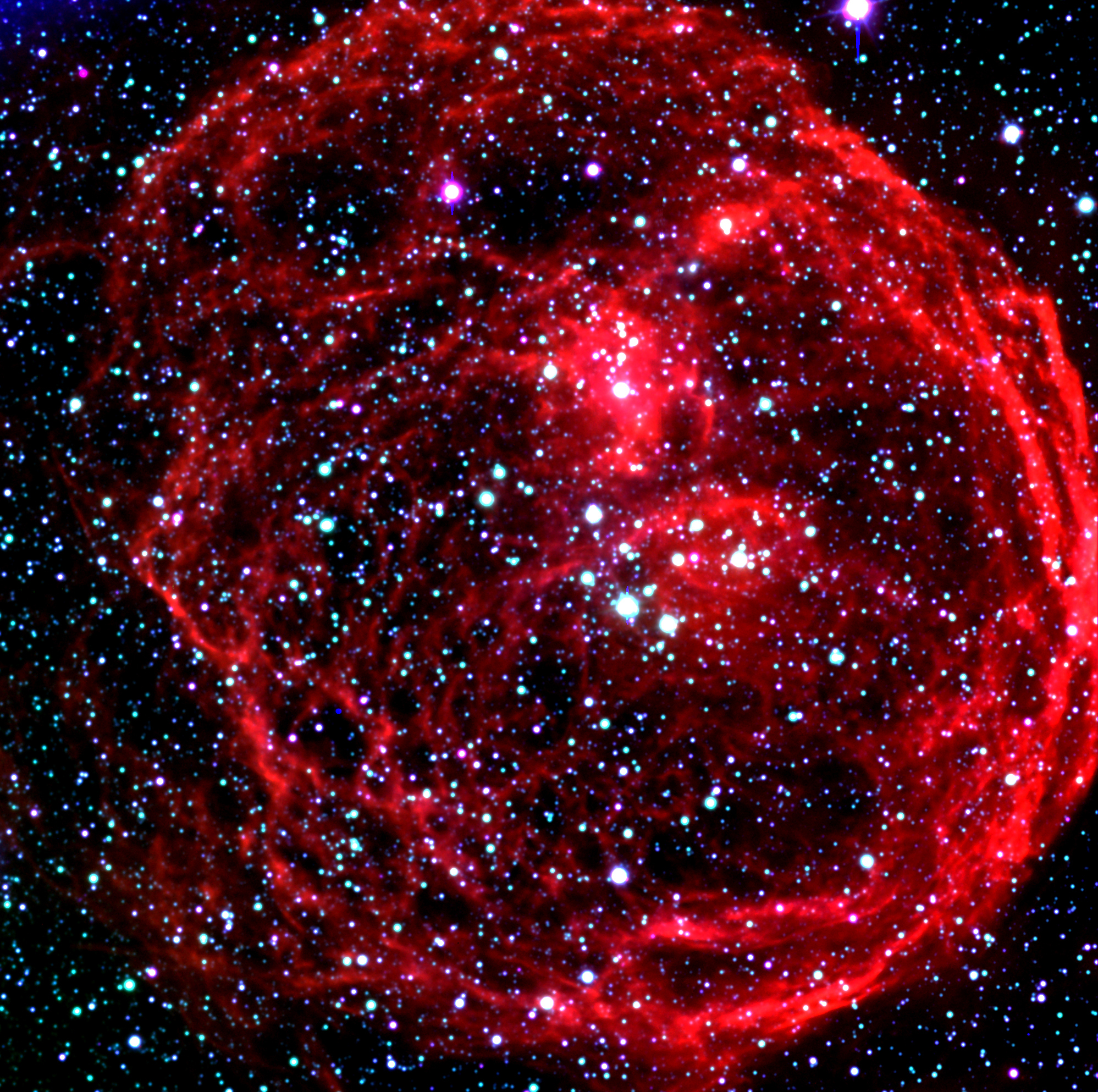 This image shows a three-colour composite of the N 70 nebula. It is a "Super Bubble" in the Large Magellanic Cloud (LMC), a satellite galaxy to the Milky Way system, located in the southern sky at a distance of about 160,000 light-years. This photo is based on CCD frames obtained with the FORS2 instrument in imaging mode in the morning of November 5, 1999. N 70 is a luminous bubble of interstellar gas, measuring about 300 light-years in diameter. It was created by winds from hot, massive stars and supernova explosions and the interior is filled with tenuous, hot expanding gas. An object like N70 provides astronomers with an excellent opportunity to explore the connection between the life-cycles of stars and the evolution of galaxies. Very massive stars profoundly affect their environment. They stir and mix the interstellar clouds of gas and dust, and they leave their mark in the compositions and locations of future generations of stars and star systems.